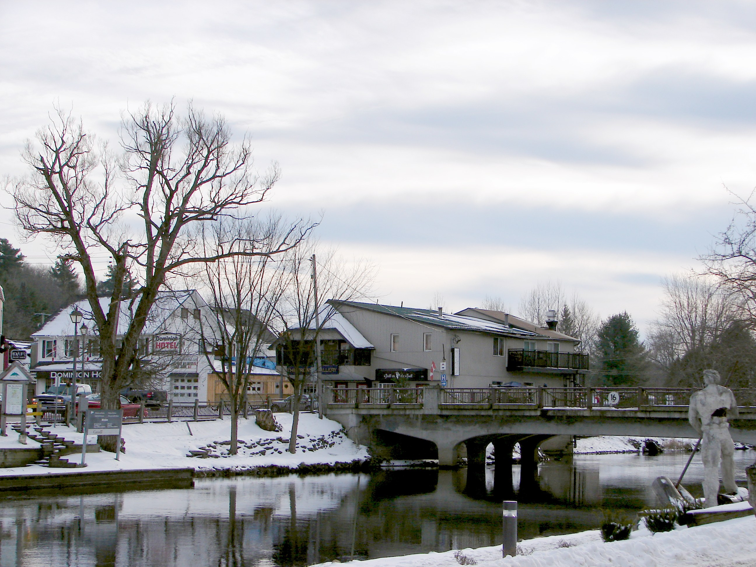 Minden (Municipality of Minden Hills), Ontario, Canada. Looking southeast at Dominion Hotel across Gull River.